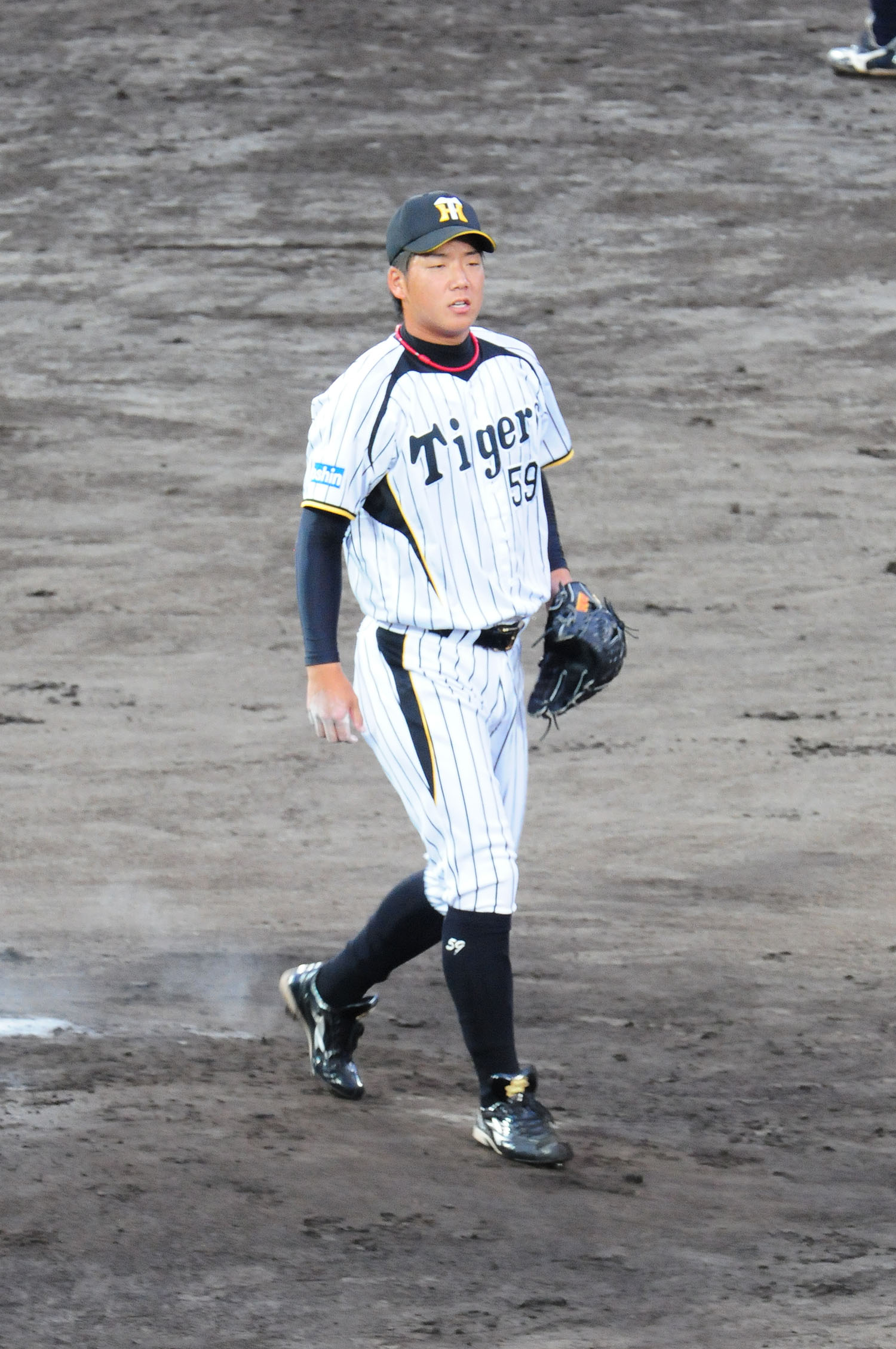 Akira Iwamoto, pitcher of the Hanshin Tigers, at Akita Prefectural Baseball Stadium.